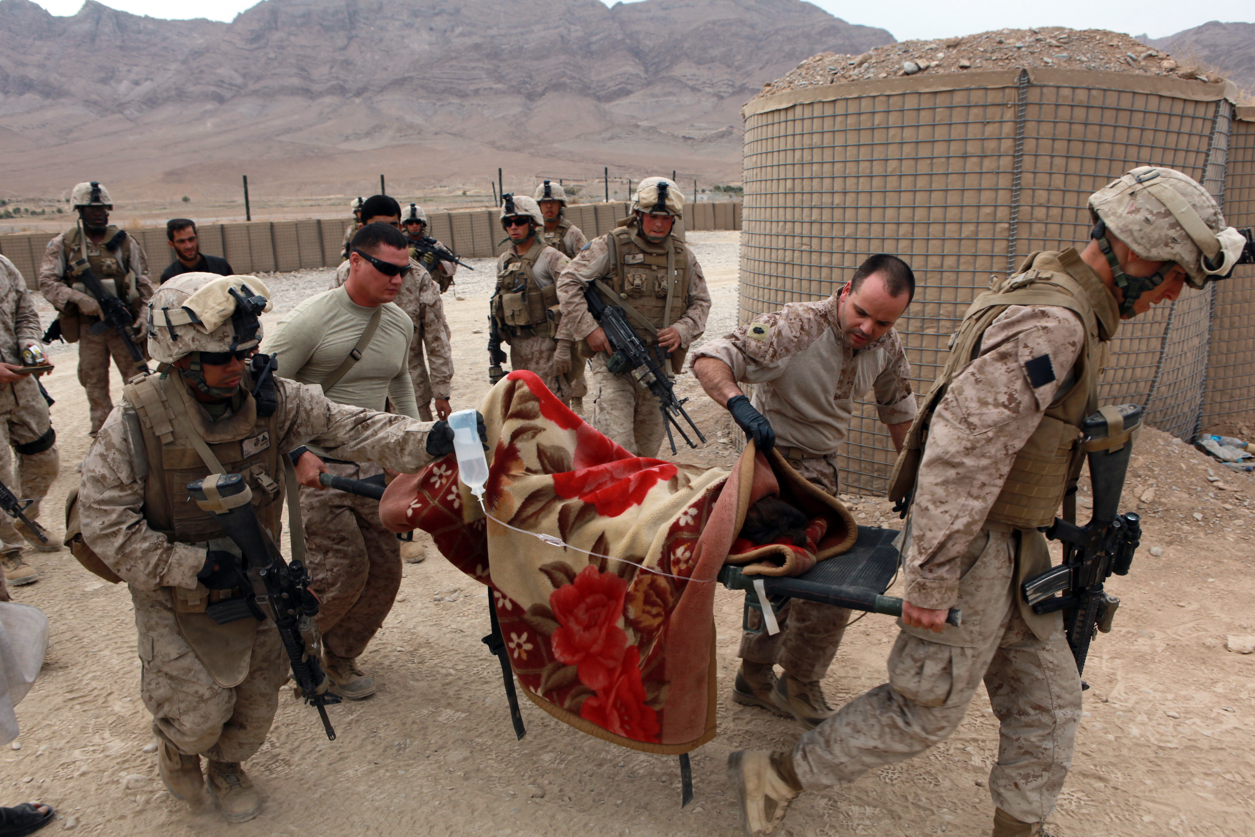 Marines and Sailors assigned to India Company, 3rd Battalion, 4th Marine Regiment tend to the medical needs of an injured boy near Forward Operating Base Golestan in Helmand province, Afghanistan. The boy fell from an unknown height and was in critical condition.